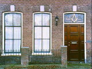 Building of Willem Frederik Karel Lodge, Den Helder, The Netherlands